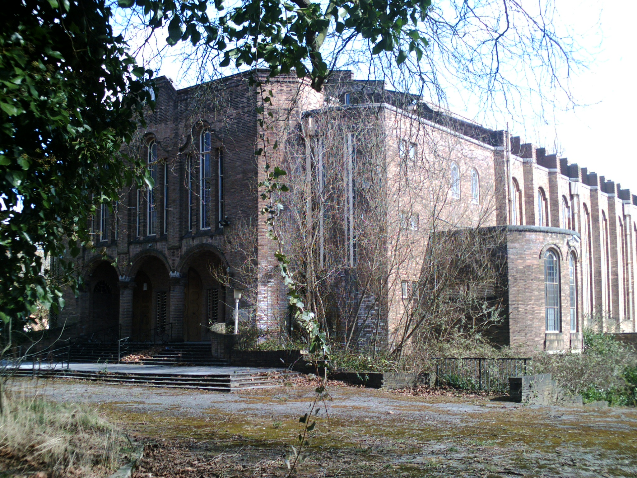 It's difficult at the best of times to get a clear shot of this Grade II* listed synagogue, and not improved by locked gates and various growths in the way. Built in 1936 and designed by Sir Ernest Alfred Shennan, it closed in January 2008 and is now disused but not derelict.